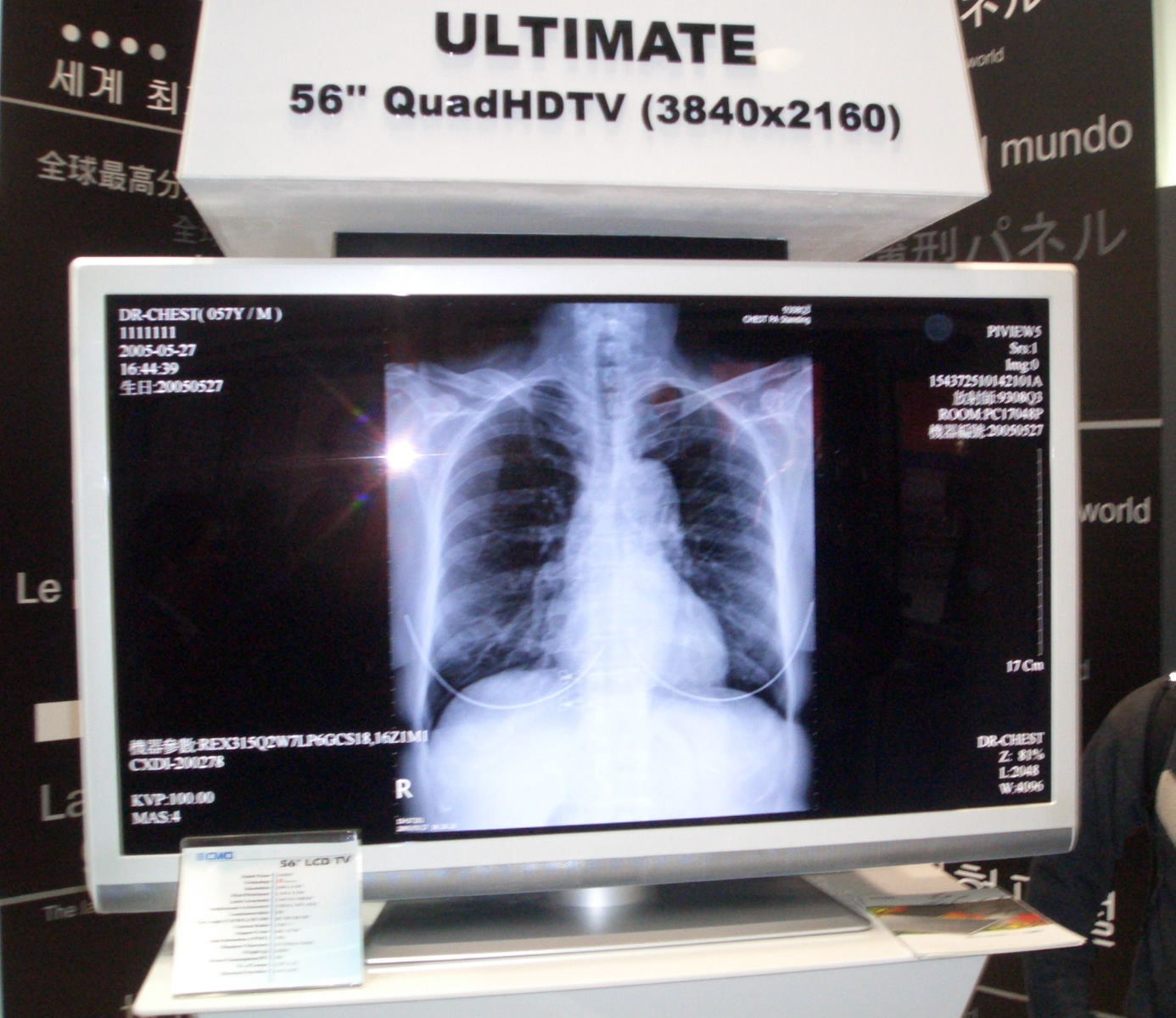 Prototype of a QuadHDTV display (Chi Mei Optoelectronics) displaying a digital x-ray image. Taken on CeBIT 2006 in Hannover (Germany).